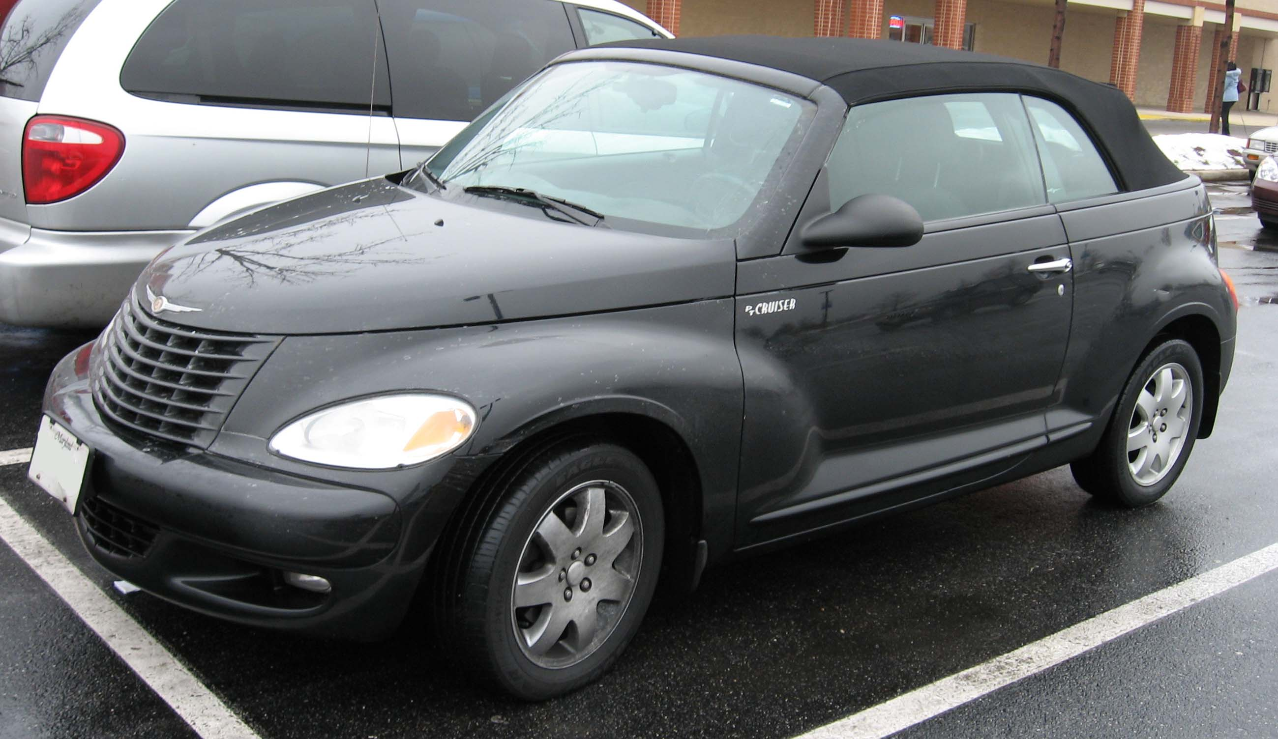 2005 Chrysler PT Cruiser convertible photographed in USA.